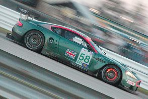 Aston Martin DBR9 at dusk during the 2005 12 Hours of Sebring. Personal photo that i took myself. anyone can use it.